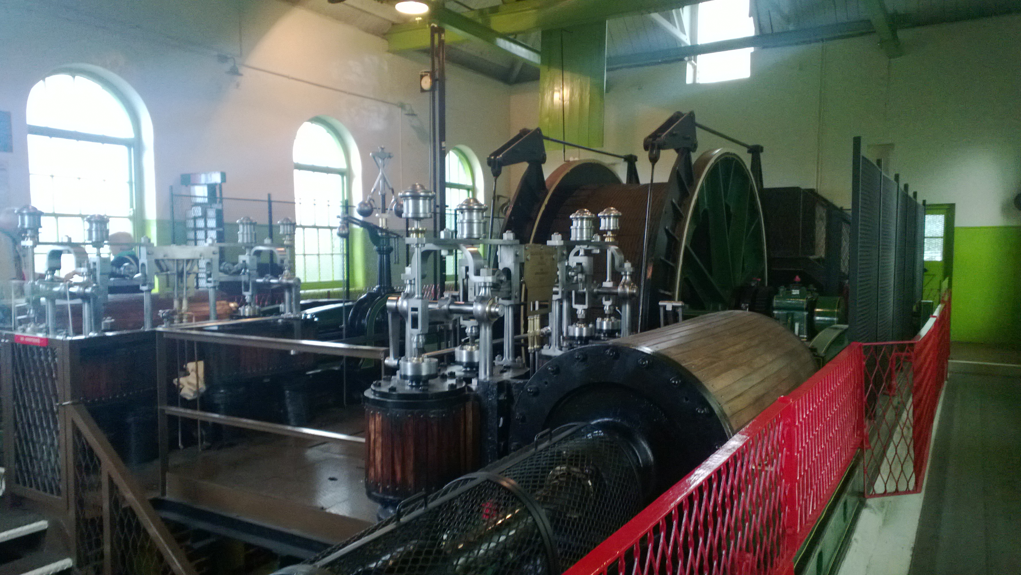 1888 colliery winding engine by the Grange Iron Company of Durham City, installed at Washington, County Durham, in 1903. This horizontal simplex steam engine is the main exhibit in the town's 'F' Pit Museum.